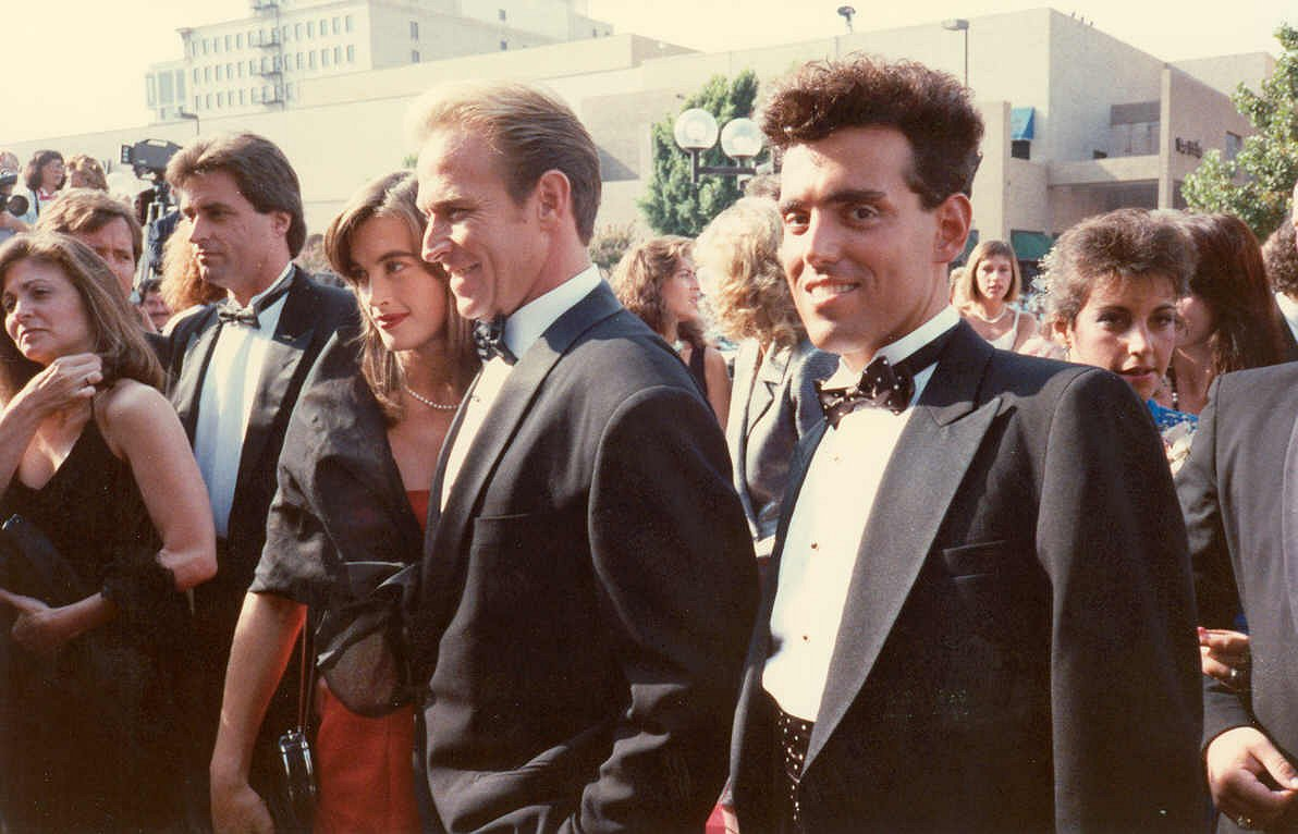 Jim Turilli (right) sidles up to Corbin Bernsen and Amanda Pays on the red carpet at the 40th Annual Primetime Emmy Awards, 8/28/88 - Permission granted to copy, publish, broadcast or post but please credit "photo by Alan Light" if you can